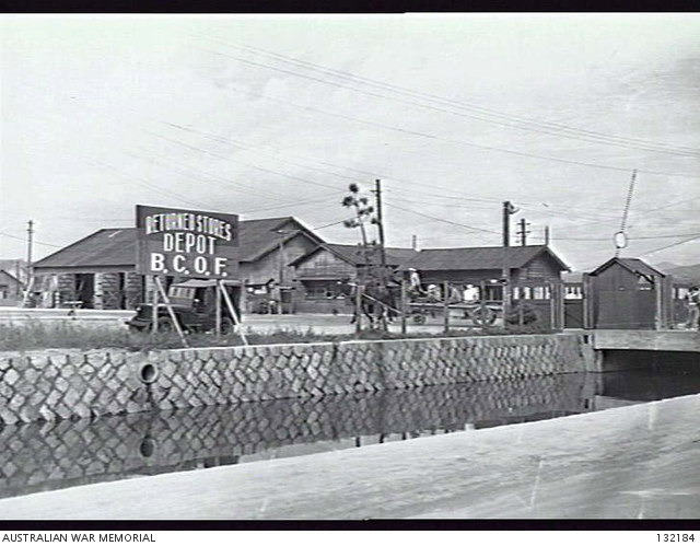 MAIN ENTRANCE TO THE CAMP, 5 MILES FROM HIROSHIMA, WHICH WAS FORMERLY USED BY THE JAPANESE AS AN ARMY ORDNANCE DEPOT, THEN LATER OCCUPIED BY UNITS OF BCOF.